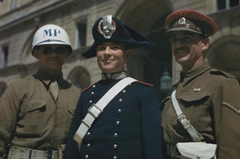 International Police in Caserta, Italy, 6 May 1944 Representatives of the British, Italian and American Police in the courtyard of the Caserta Palace in Italy. The three forces shared the duties of policing the 400-room palace. Left to right: an American Military Policeman, Corporal W M Wittner from New York City; an Italian Caribinieri, Bergamasco Liny from Torino, Italy; and a British Military Policeman, Lance Corporal B C Milner from Harrogate, Yorkshire.